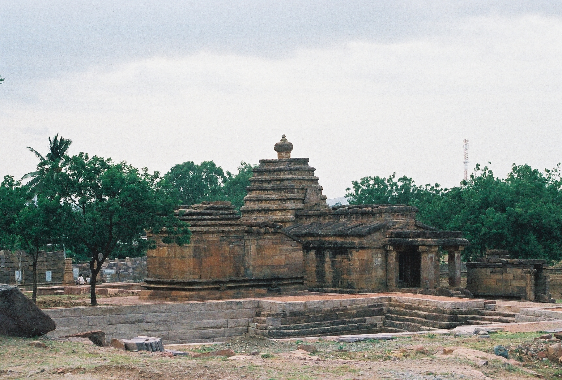 This photograph was taken by me at the Mallikarjuna temple at Aihole, Karnataka state, India. The temple was constructed in the 11th century during the reign of the Western (Kalyani) Chalukya dynasty.